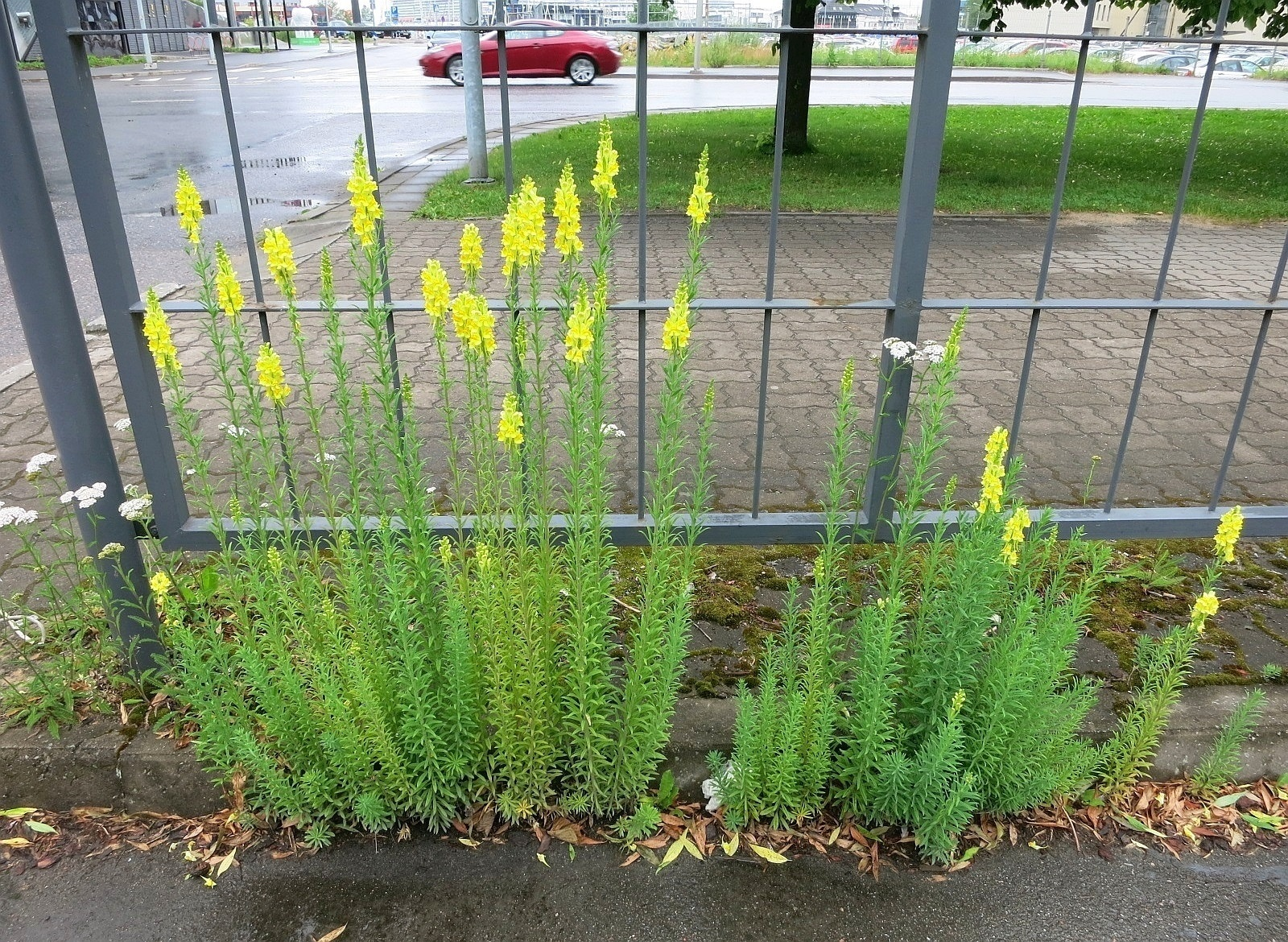 Nice Linaria vulgaris grows well in Tallinn City (Estonia).